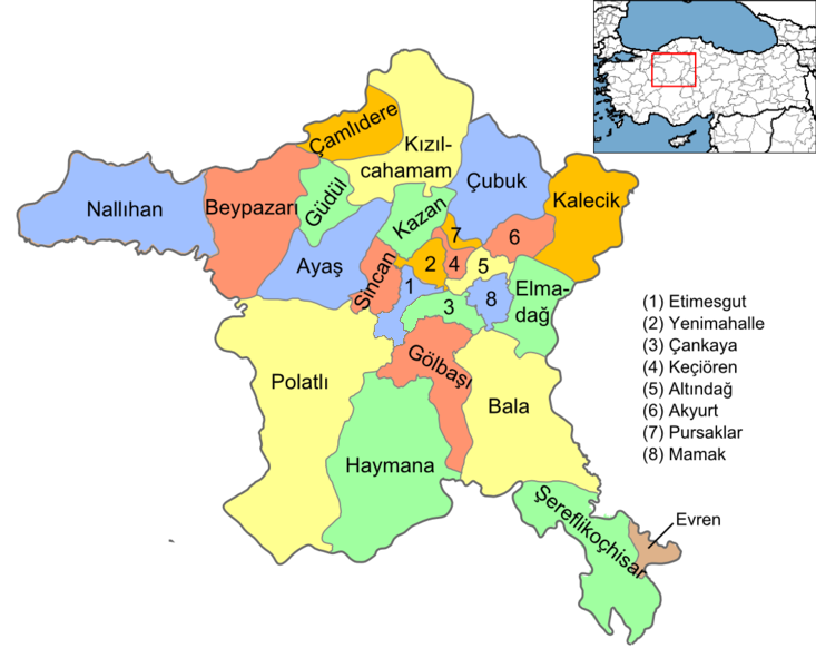 Map of the districts of Ankara province of Turkey. Created by Rarelibra 16:37, 1 December 2006 (UTC) for public domain use, using MapInfo Professional v8.5 and various mapping resources. Edited by One Homo Sapiens Corrected text where İ,Ş,ı,ğ,or ş occurs in name. Source: [statoids-com]. Increased font size and enhanced color differences among adjacent districts.